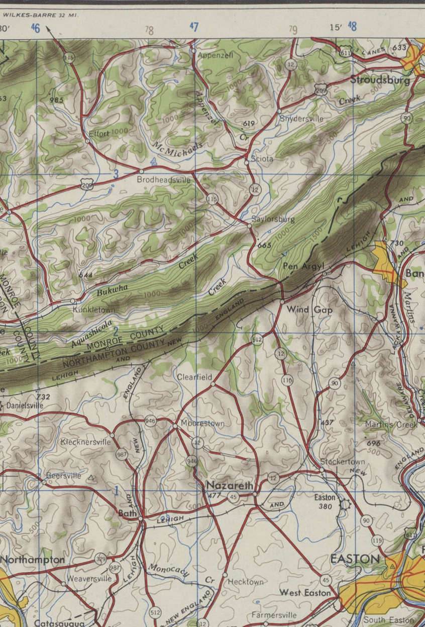 The 1947 Newark Quadrangle Map detailing the former southernmost segment of PA 115 from Brodheadsville to Easton, Pennsylvania.